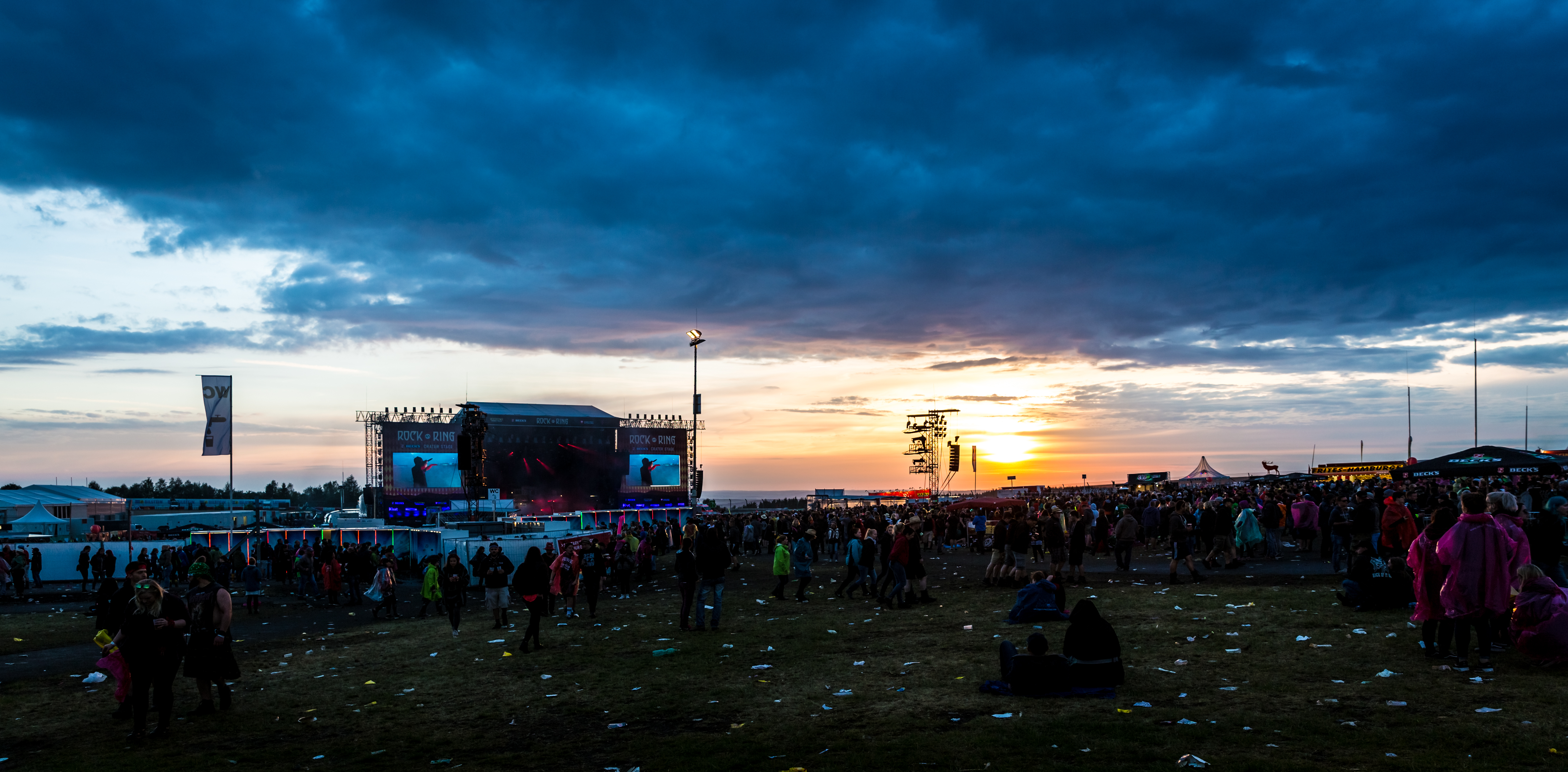 Festivalgelände - Rock am Ring 2017